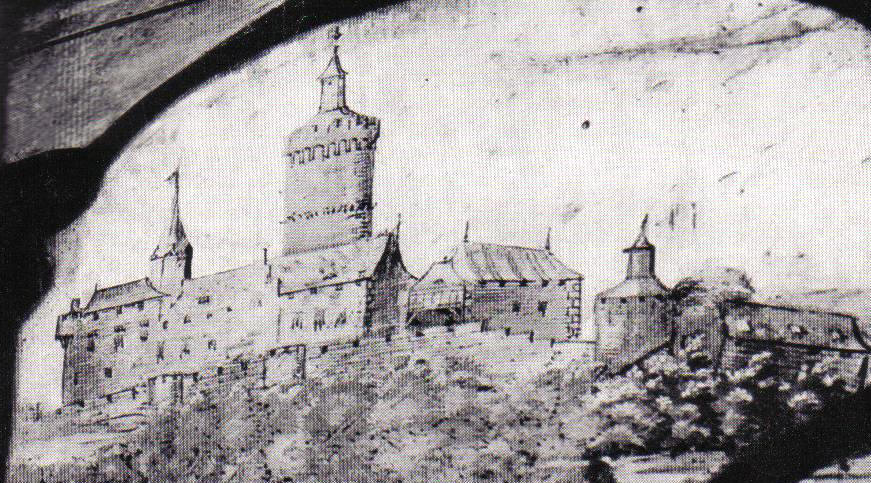 Image of Godesburg castle in Bad Godesberg, Bonn, Germany, on a church window at Kloster Ehrenstein/Wied; according to Potthoff (2009), Die Godesburg - Archäologie und Baugeschichte einer kurkölnischen Burg. This is the only detailed image of Godesburg castle before its destruction and thus an important source for reconstructing what the castle looked like in the 15th century.